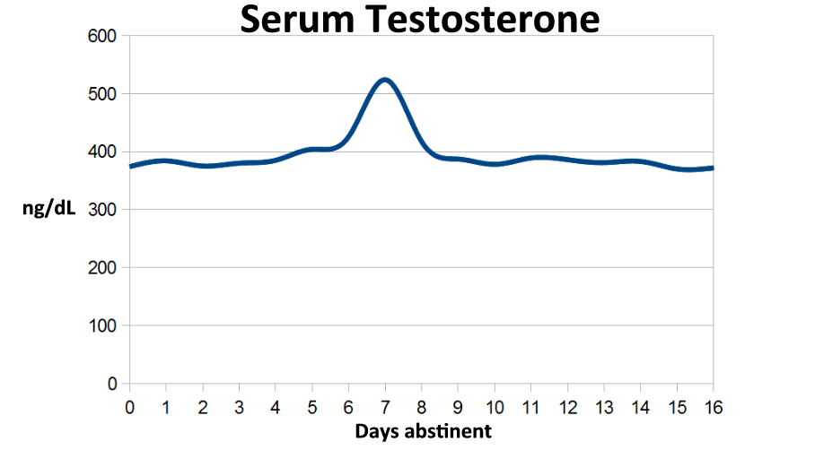 A graph depicting human male testosterone levels as part of a study into the effects of abstinence and sexual activity.